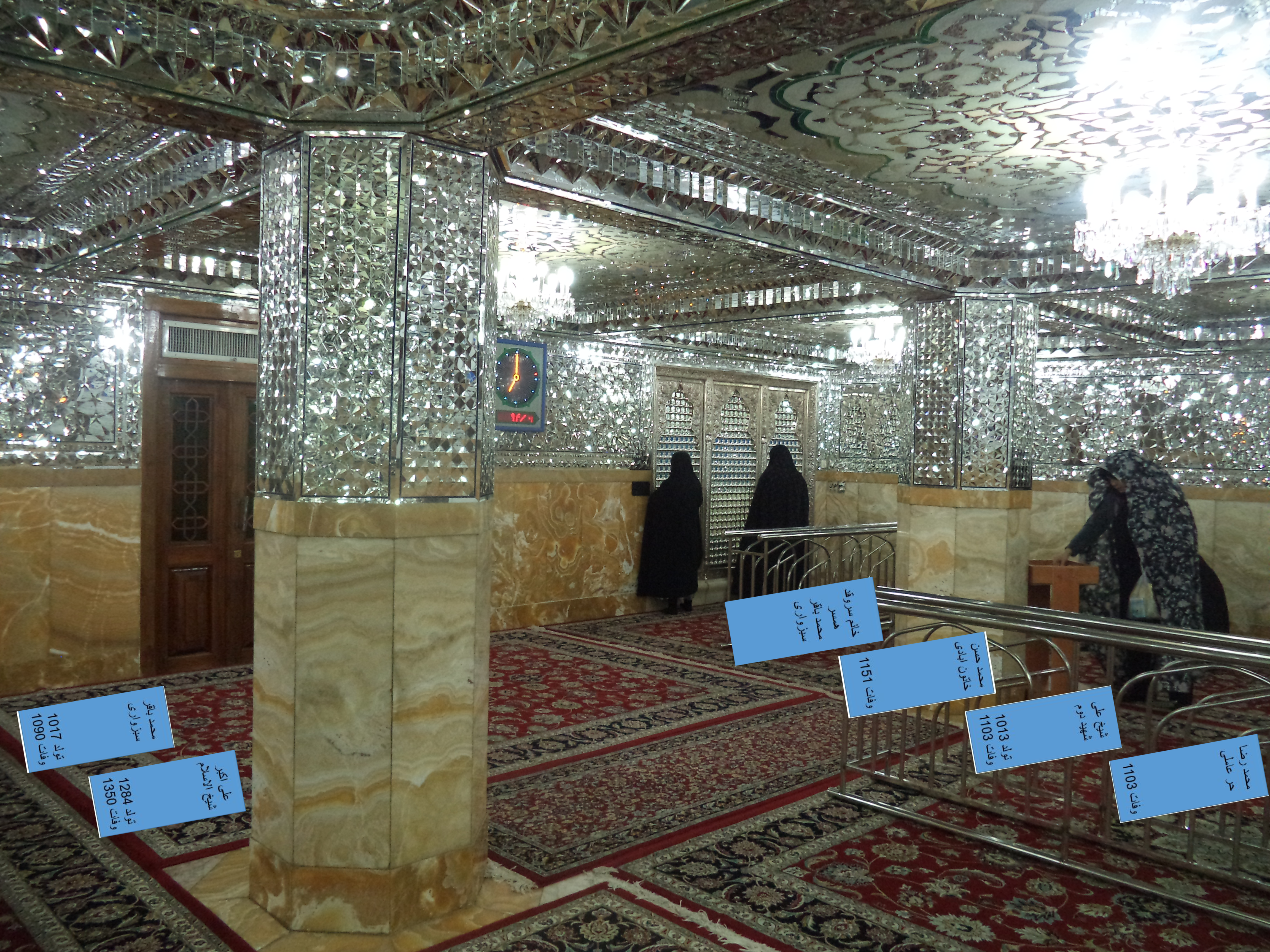 Mausoleum of Sheikh Hor Ameli- Mashhad